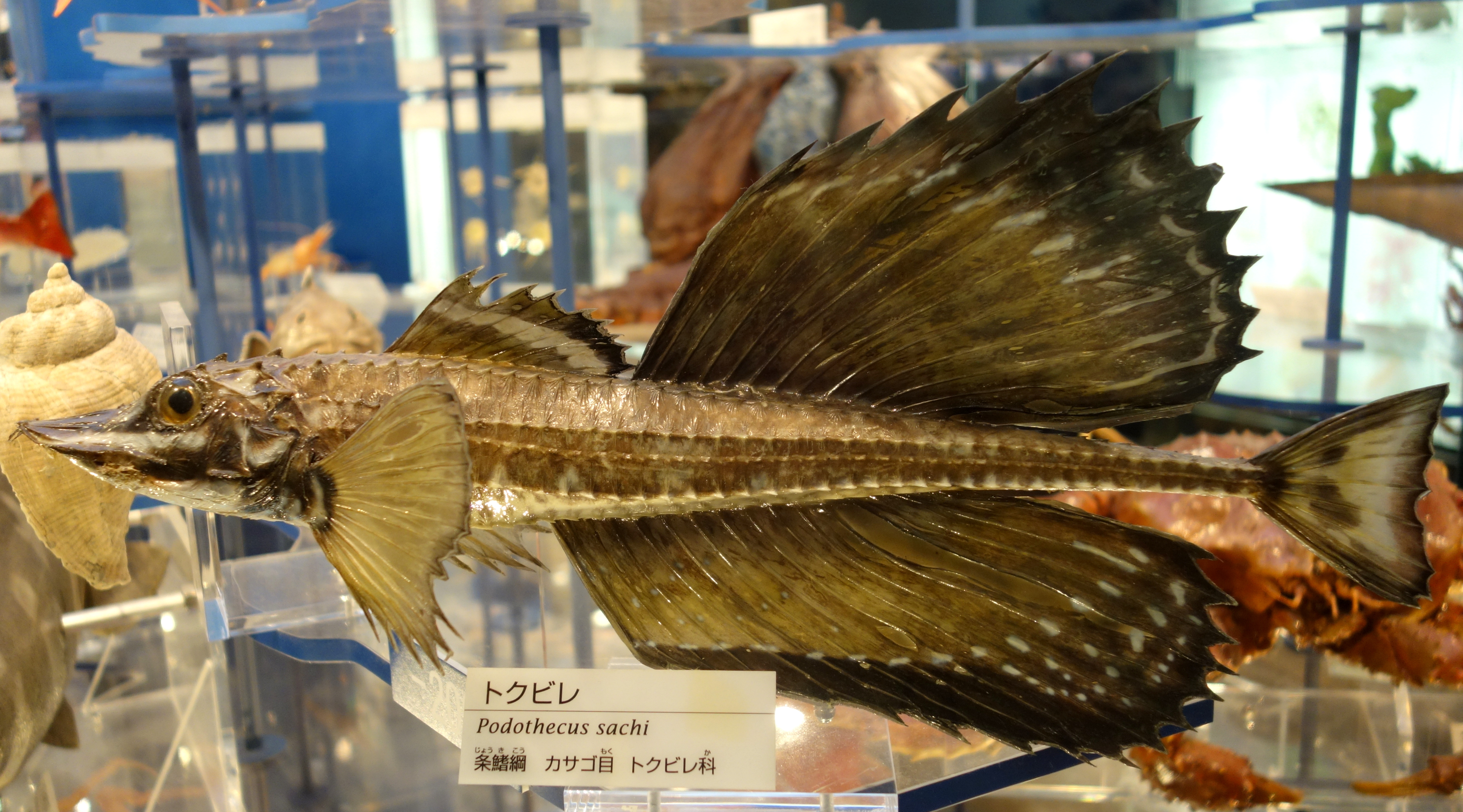 Exhibit in the National Museum of Nature and Science, Tokyo, Japan.